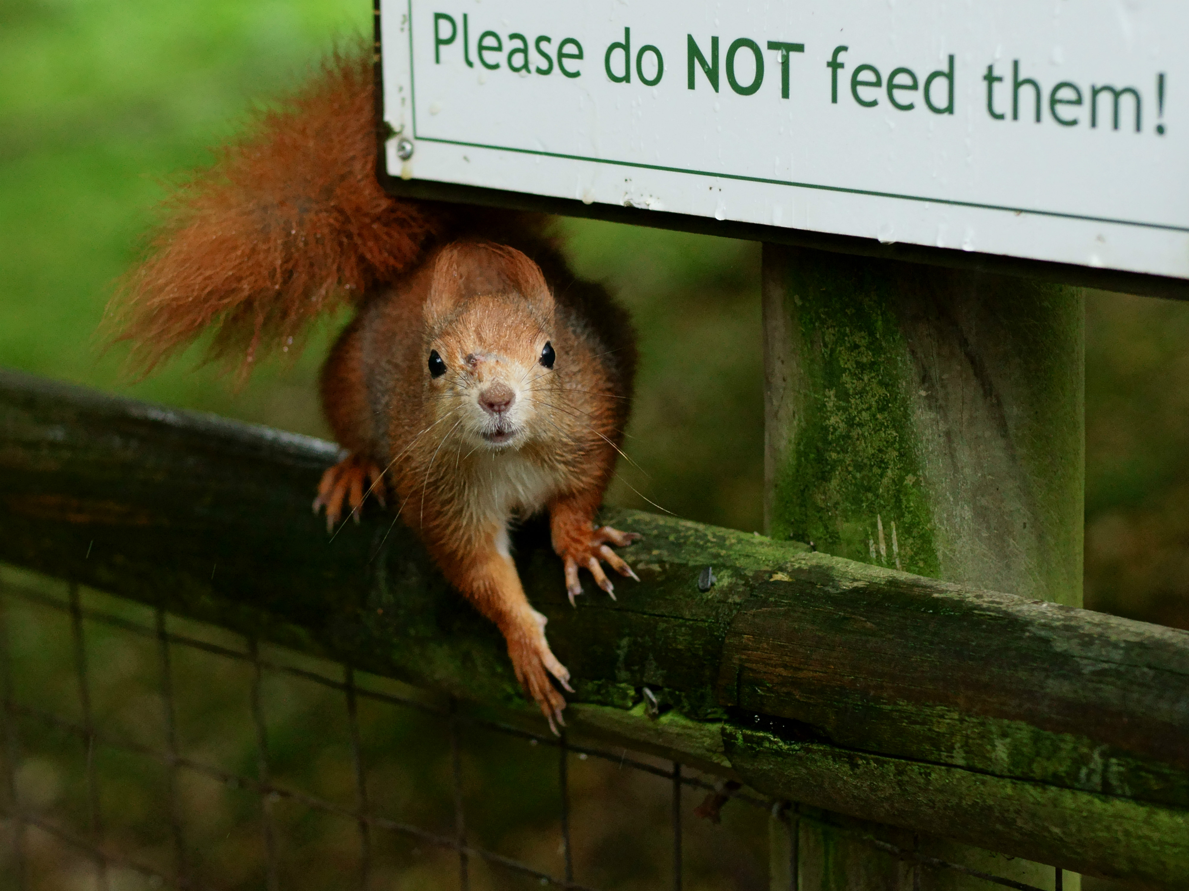 Seen at the British Wildlife Centre. On a wet morning, a soggy 'Cleo' (official name 'Nutkin') was up to her usual tricks.